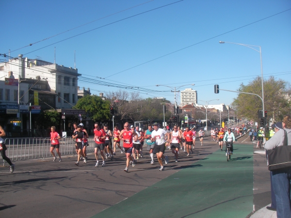 Melbourne Marathon at Fitzroy Street, St Kilda